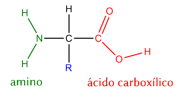 Structure of an aminoacid (in Spanish)